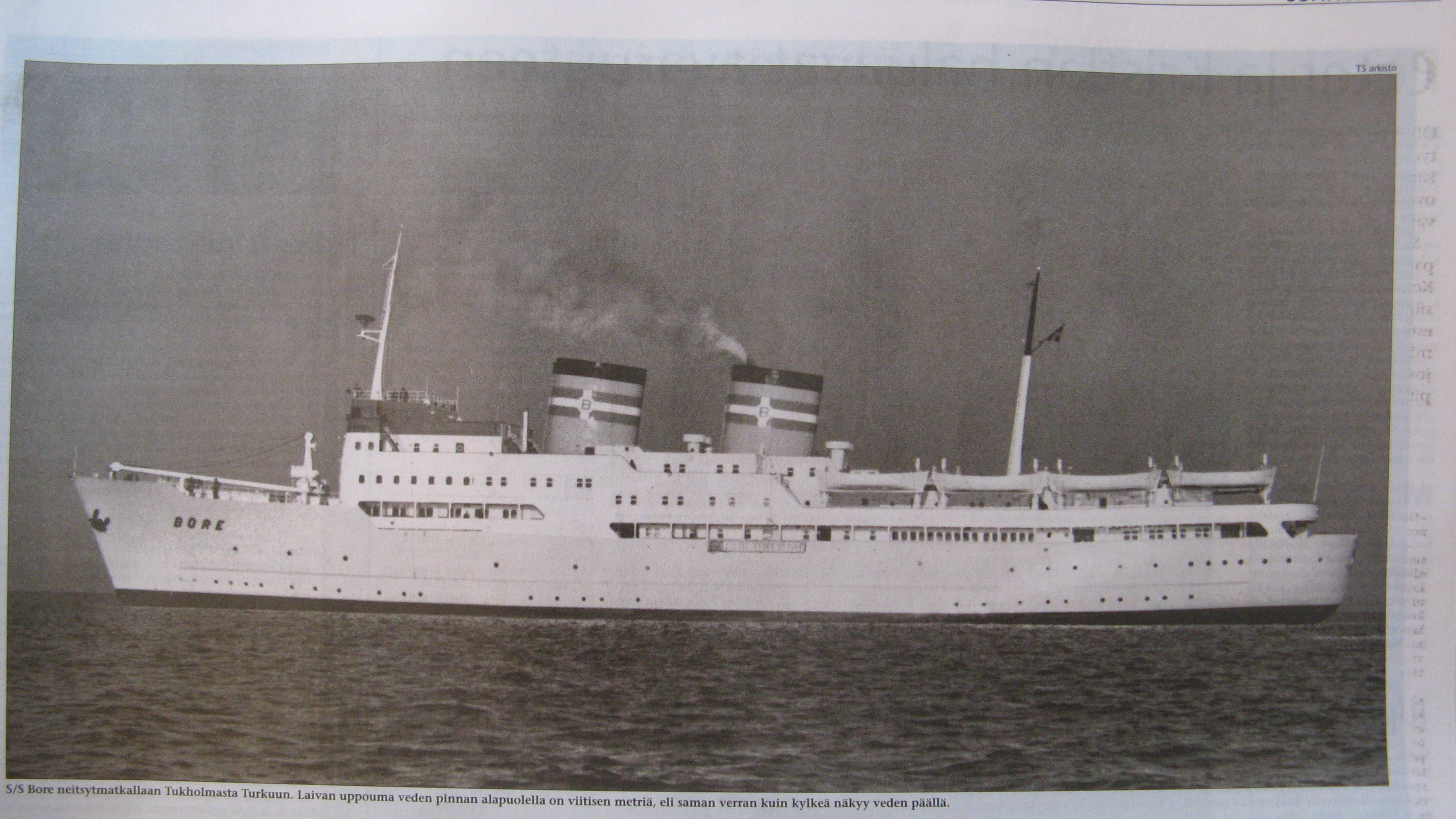 S/S Bore on her maiden voyage from Stockholm to Turku (according to caption).